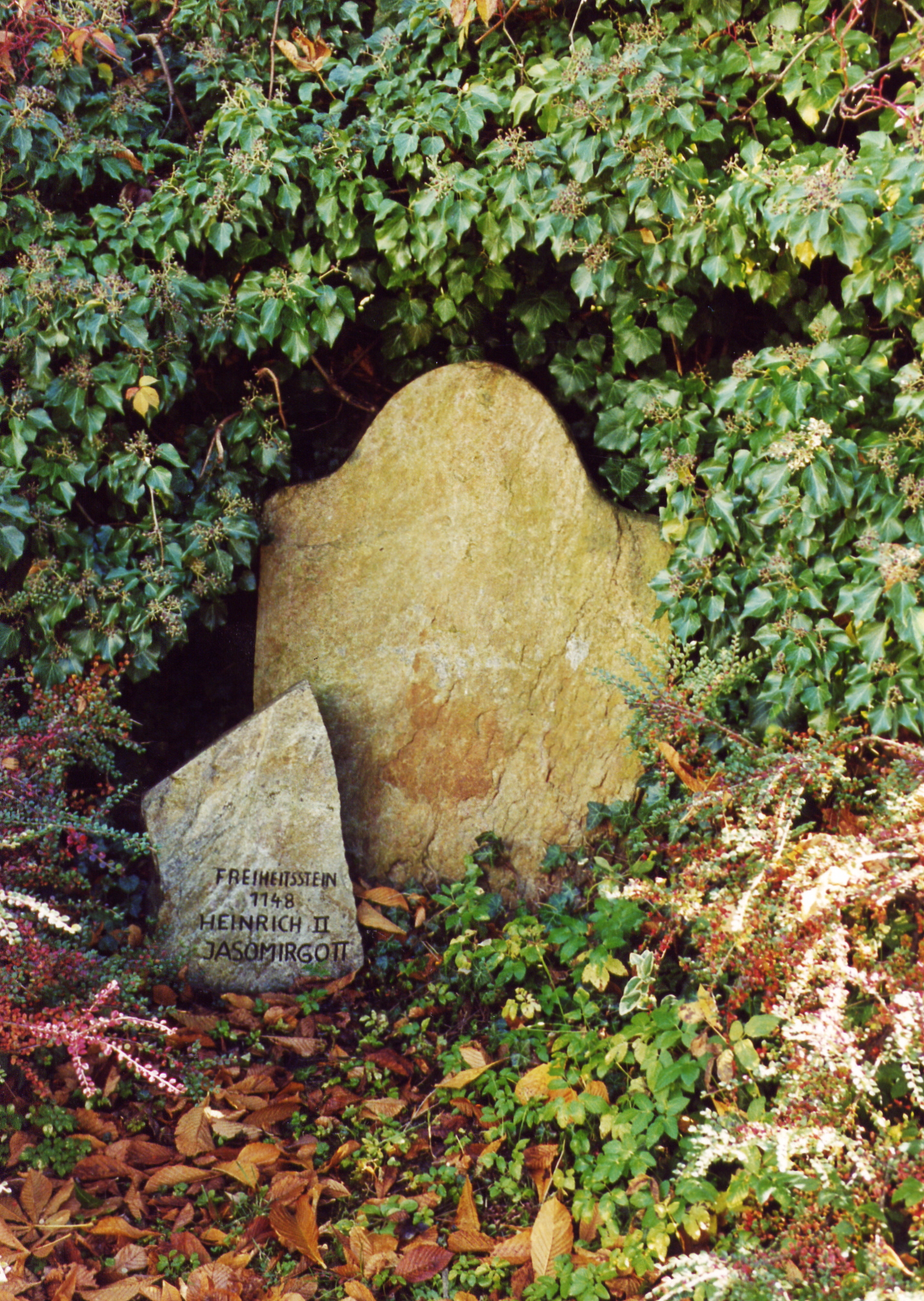 Stone for freedom, anno 1148, heinrich II.